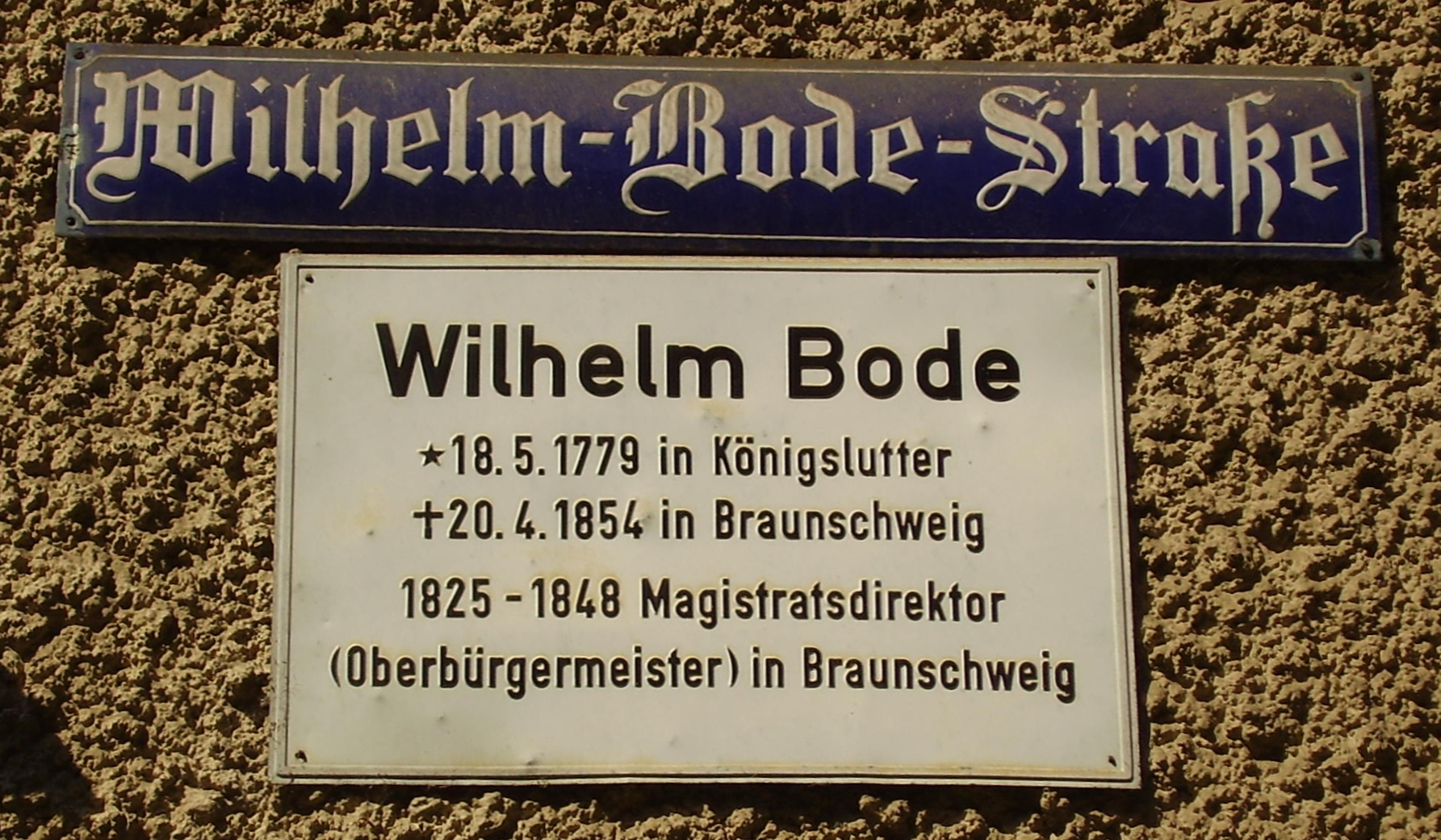 Braunschweig (City) — Wilhelm-Bode-Str. — Street sign